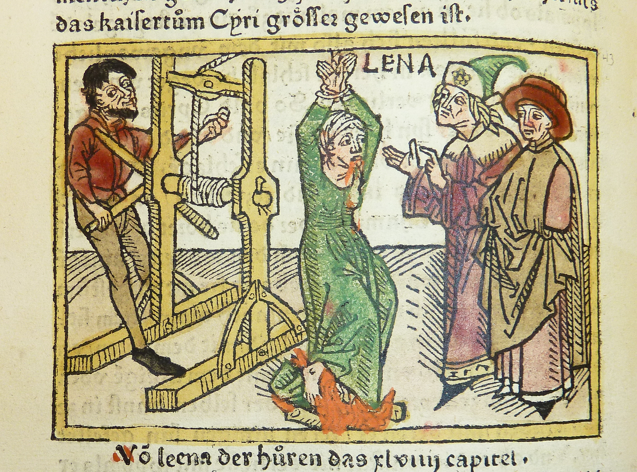 Woodcut illustration (leaf [i]2v, f. lxxij) of Leaena, hand-colored in red, green, yellow and black, from an incunable German translation by Heinrich Steinhöwel of Giovanni Boccaccio's De mulieribus claris, printed by Johannes Zainer at Ulm ca. 1474 (cf. ISTC ib00720000). One of 76 woodcut illustrations (1 on leaf [e]8v dated 1473), each 80 x 110 mm., depicting scenes from the life of the women chronicled (for a full list of subjects, cf. W.L. Schreiber, Handbuch der Holz- und Metallschnitte des XV. Jahrhunderts (Nendeln: Kraus Reprints, 1969), no. 3506). "Pour la première moitie le nom se trouve inscrit à côte de la tête de chaque femme, pour le reste il es ajouté entre les deux réglettes. Il n'y en a que trois, qui n'ont qu'un seul trait carré."--Schreiber. Established form: Zainer, Johannes, ‡d d. 1541?. Penn Libraries call number: Inc B-720 All images from this book Penn Libraries catalog record